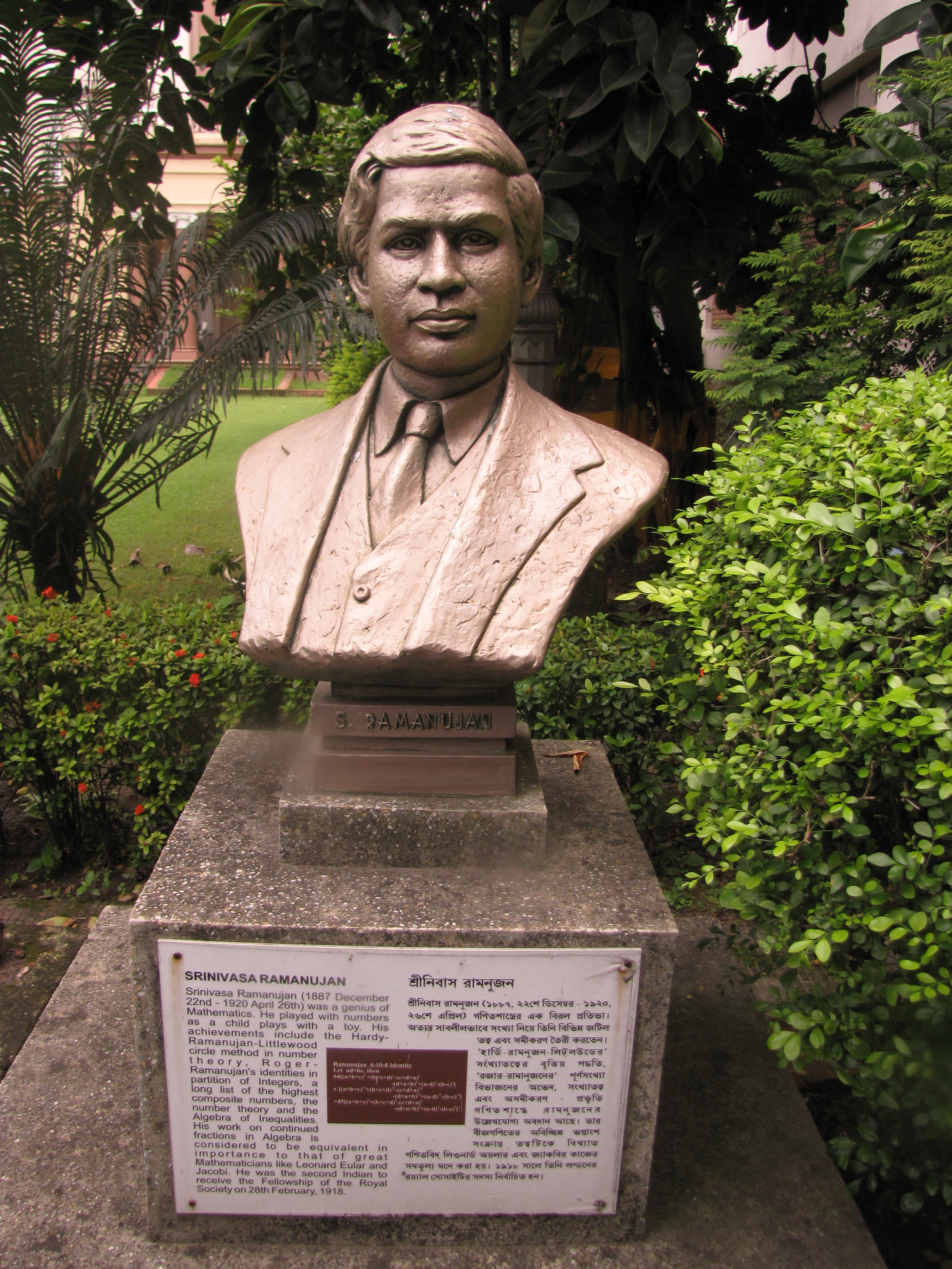 Bust of Srinivasa Ramanujan, Indian mathematical savant in the garden of Birla Industrial & Technological Museum.